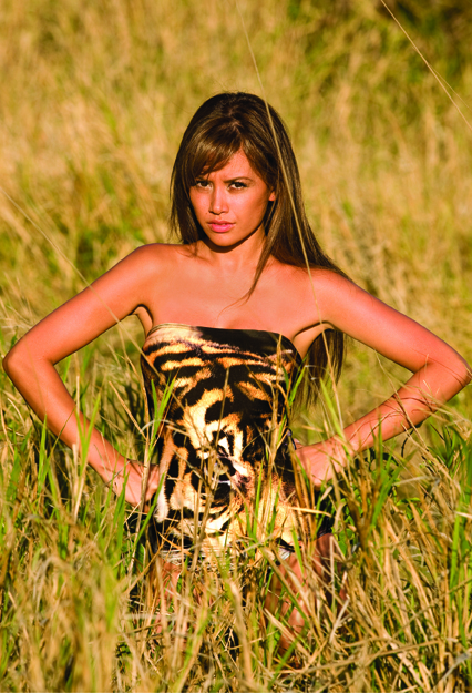 Tiger Print strapless one piece by april marie swimwear photographic digital print range of fabric